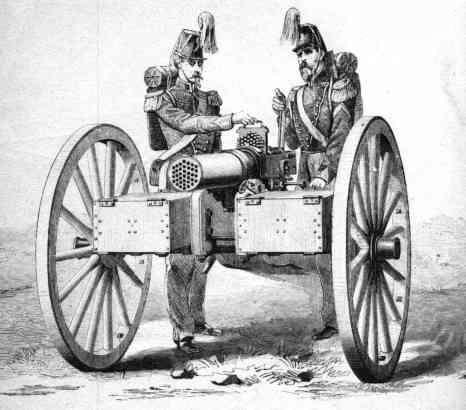 Montigny_Mitrailleuse, developed by the Belgian Armory factory of Joseph Montigny between 1859 and 1870